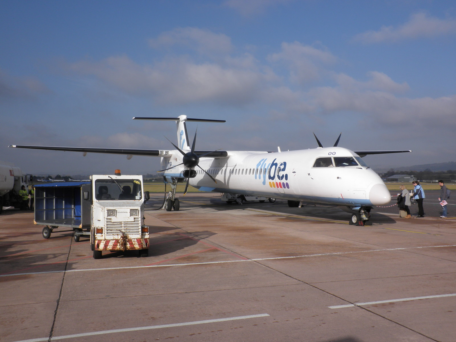 Flybe aircraft, about to depart for Newcastle